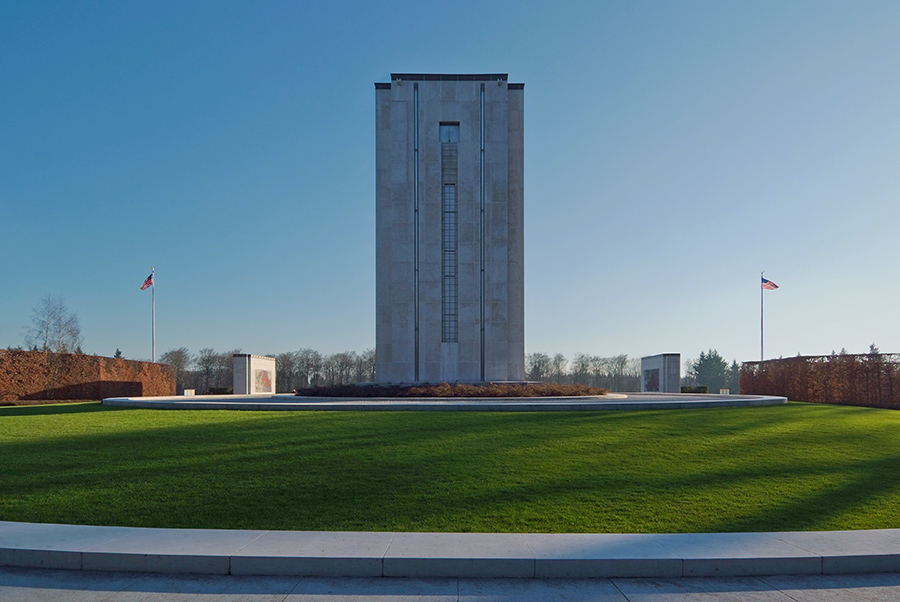 Luxembourg American Cemetery and Memorial